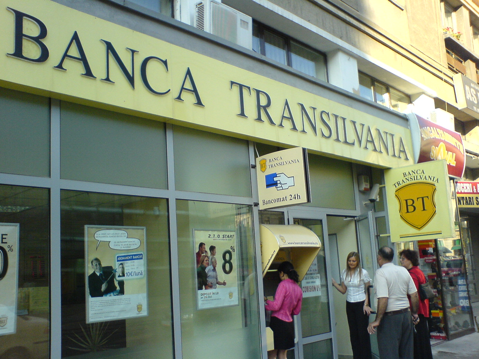 Banca Transilvania. Iasi - Romania